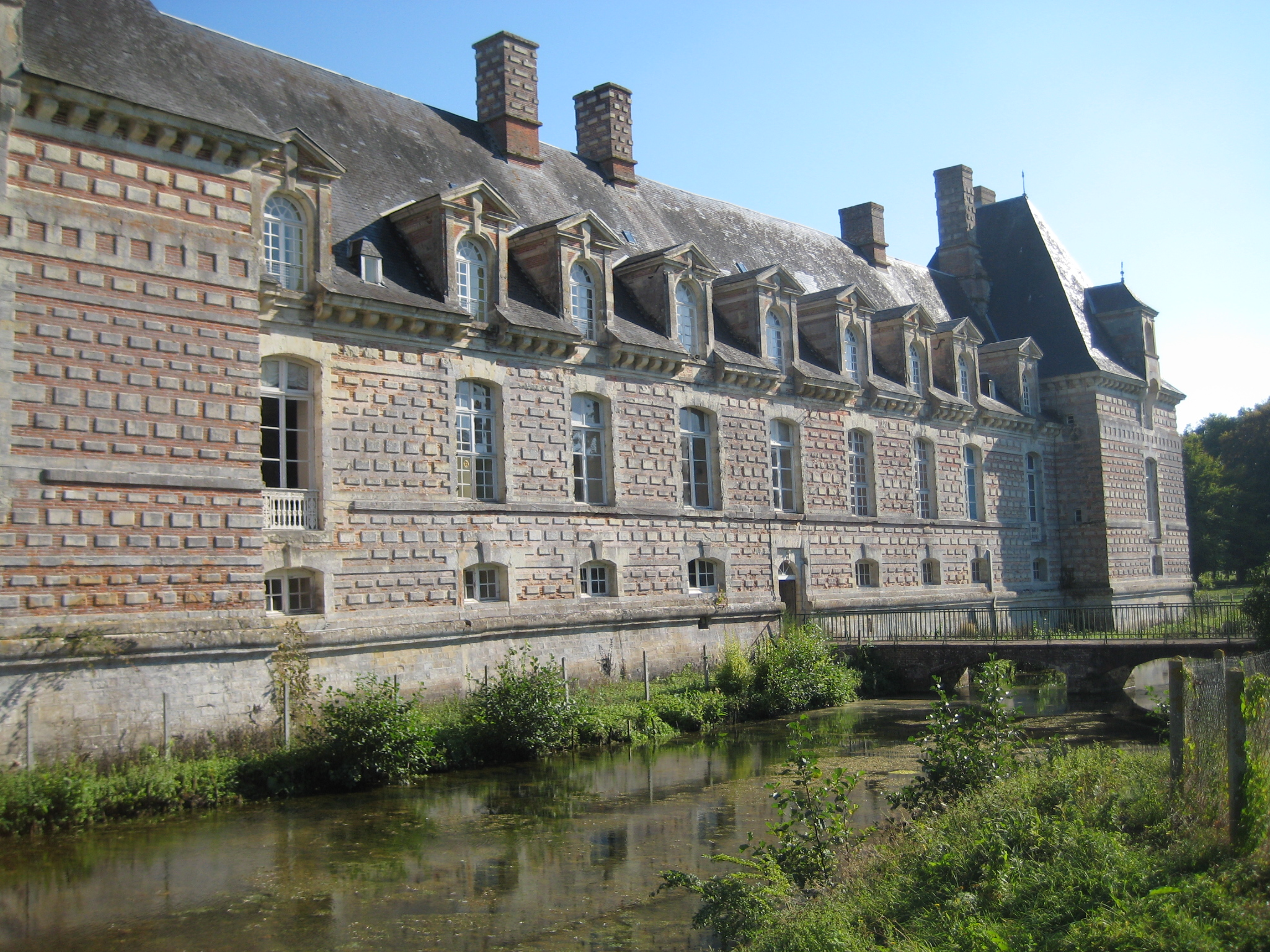 Castle of Fervaques, Calvados, France